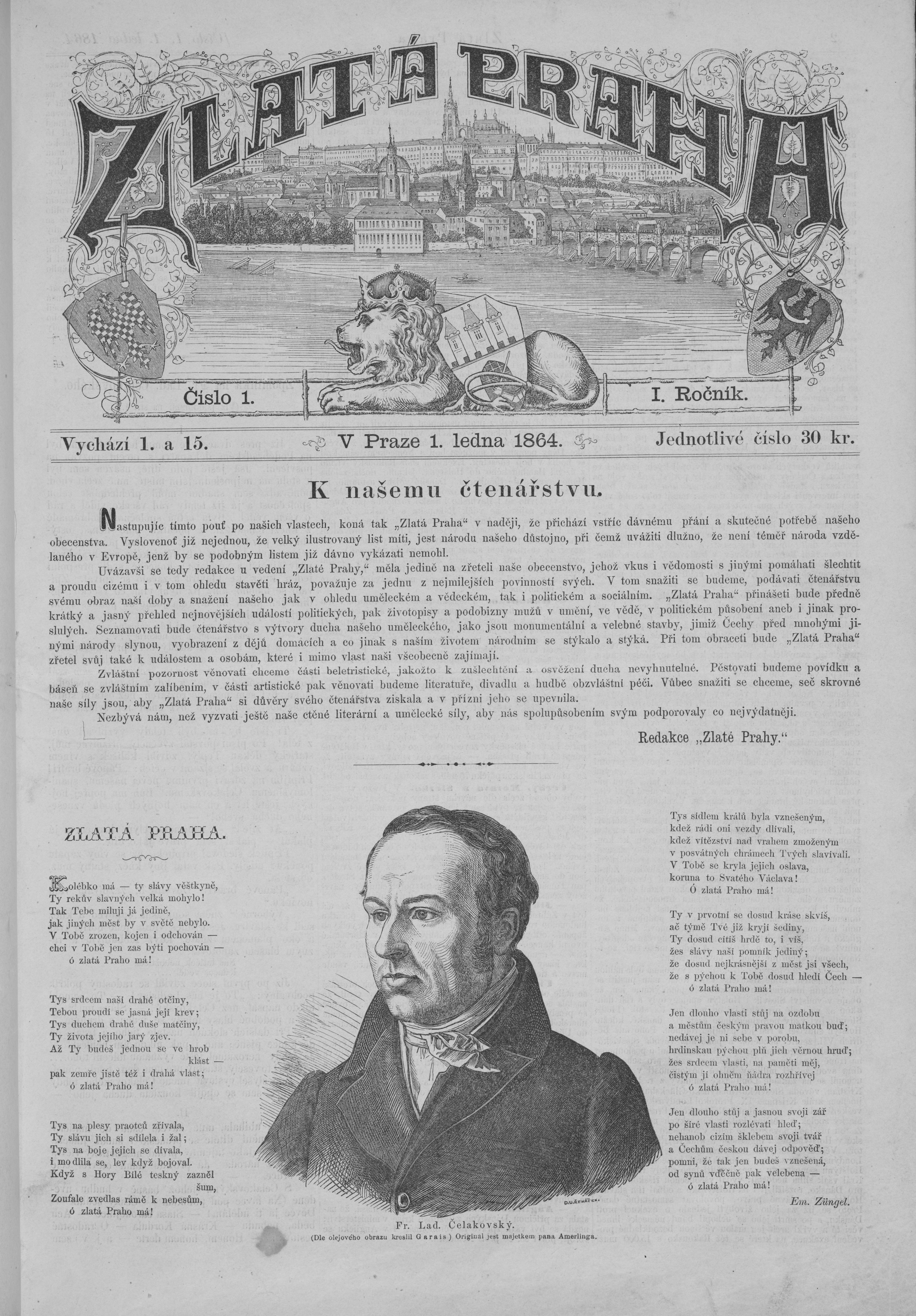 Title page of the first issue of Zlatá Praha magazine, showing an unsigned editorial (probably by Vítězslav Hálek 1835-1874) a portrait of František Ladislav Čelakovský by Antonín Garais (1837-1922?) and a poem by Emanuel František Züngel (1840-1894).